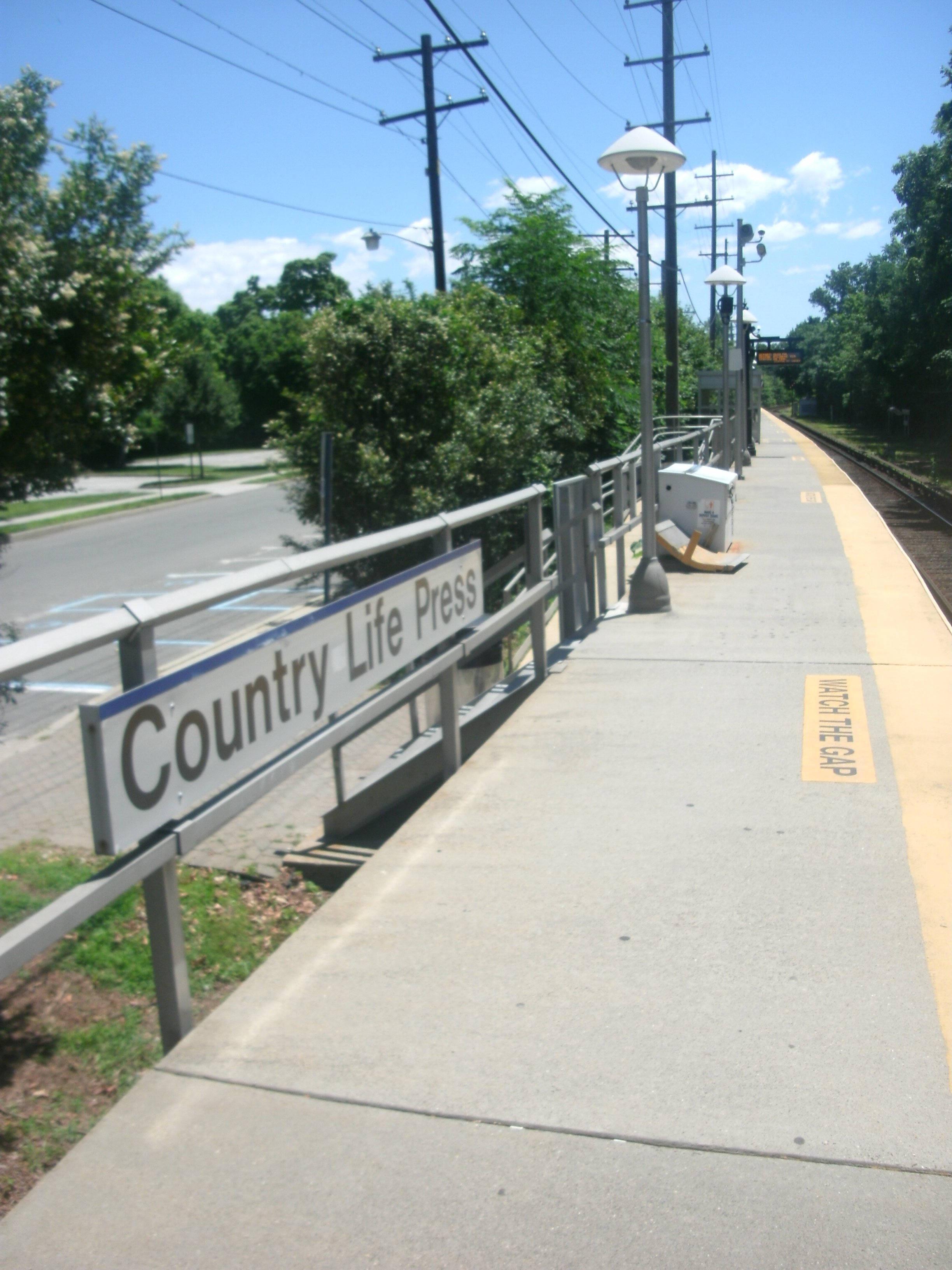 The Country Life Press Long Island Rail Road station as seen from the only platform's northern end in Garden City, New York.